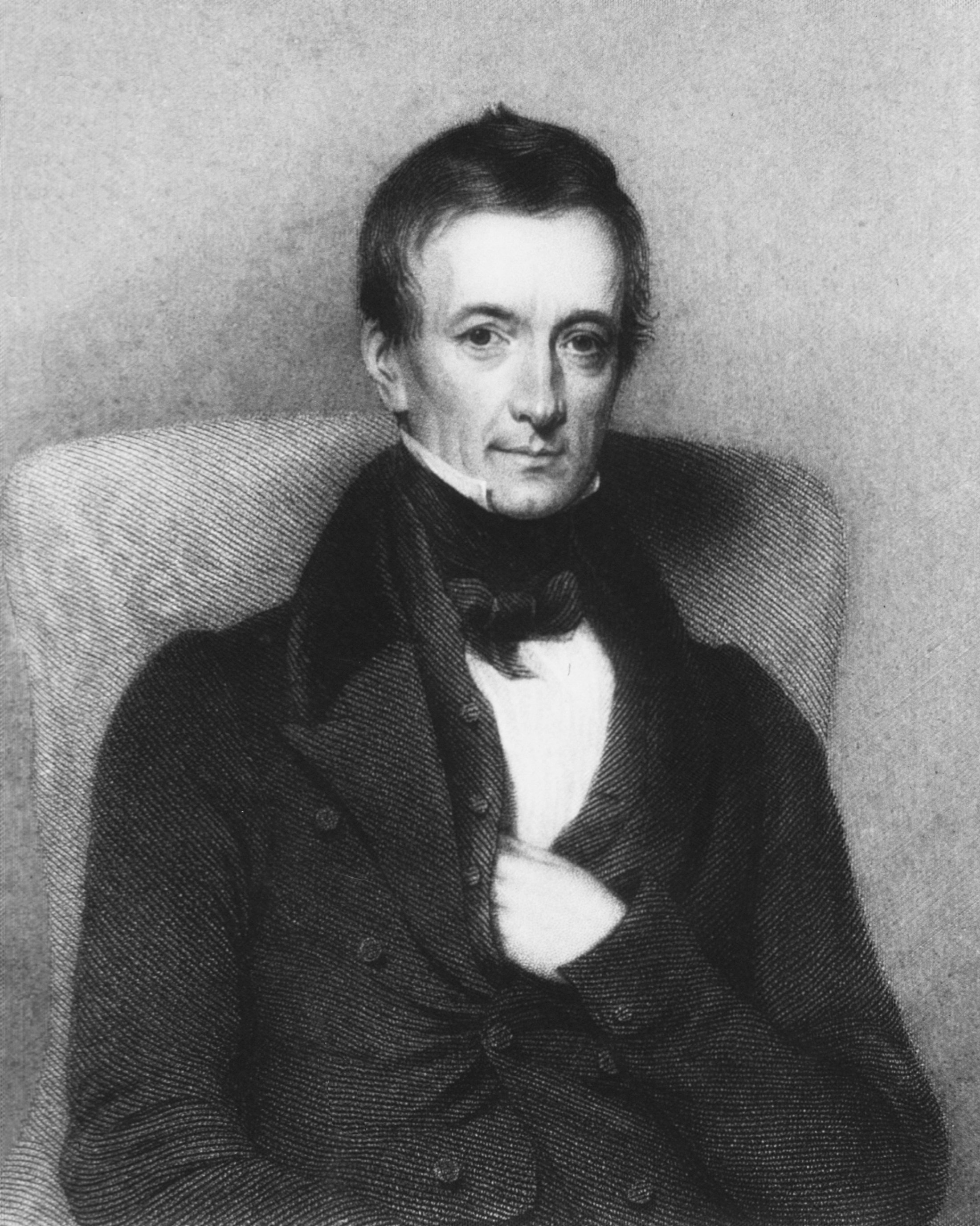 Black and white print of a Peter Mark Roget portrait